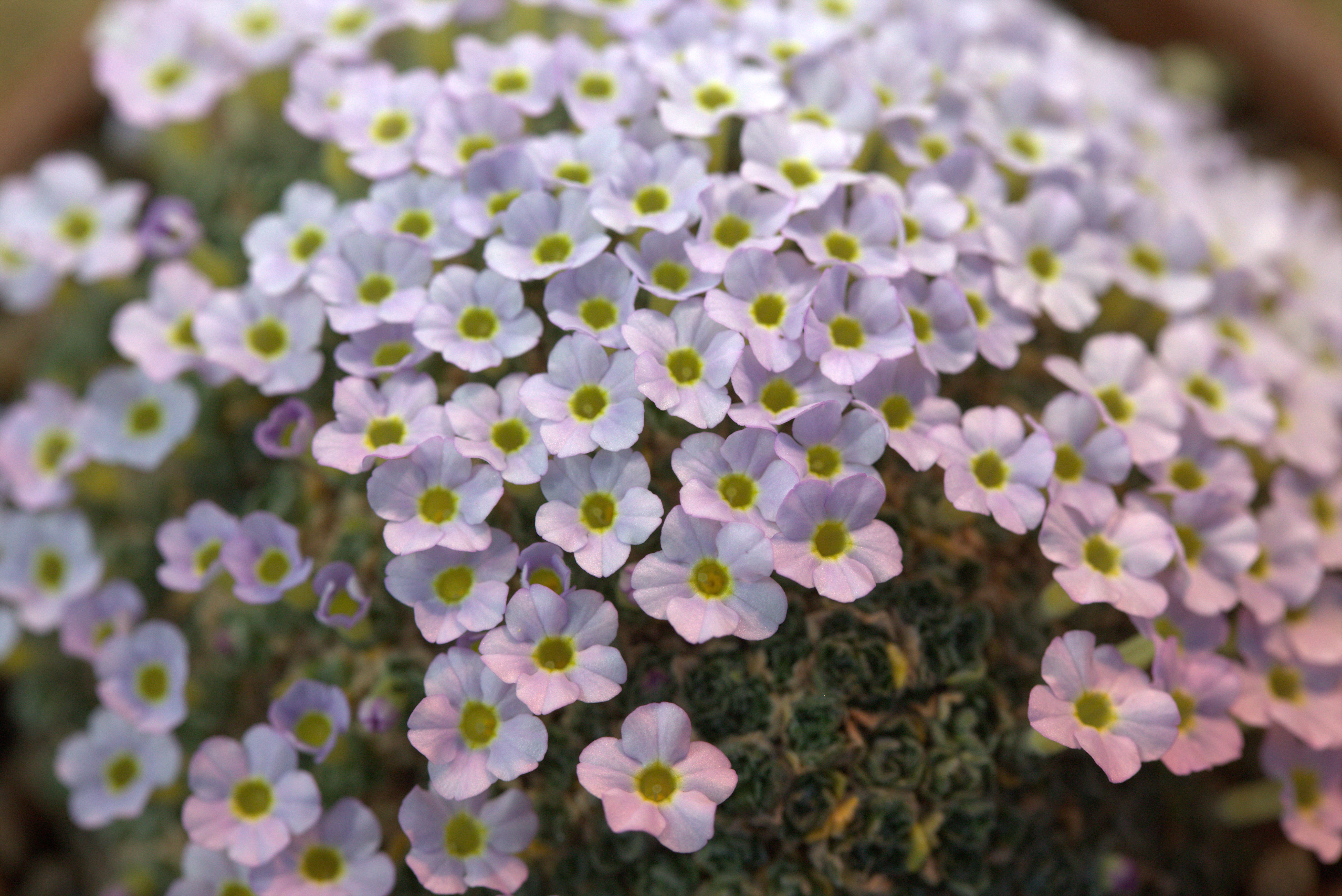 Dionysia janthina at Gothenburg Botanical Garden in 2015. Plant id: 2002-1919 s W T4Z 007